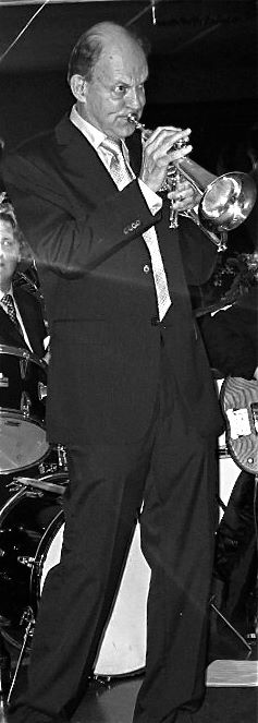 Atle playing the trumpet